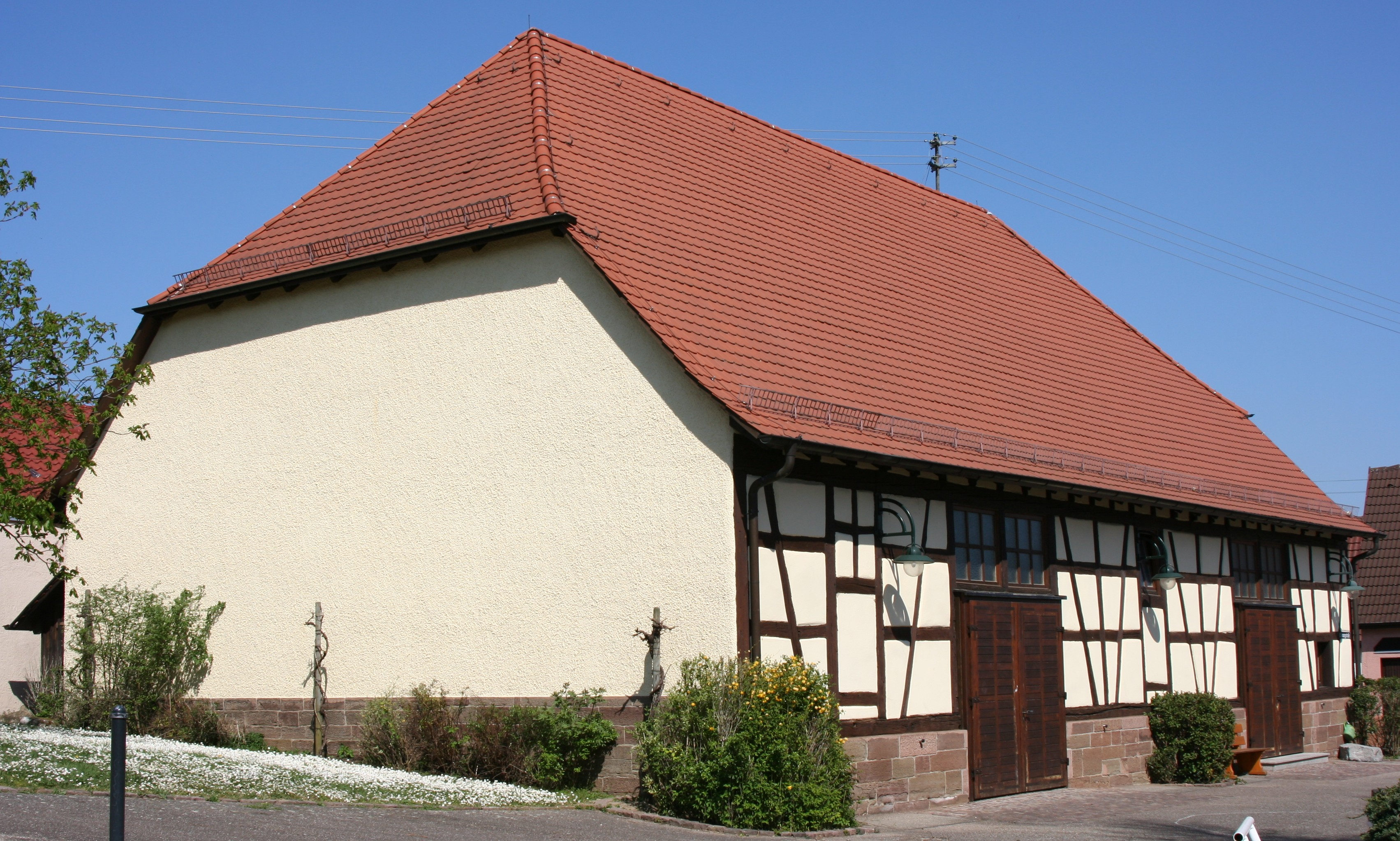 The old wine press building in Löwenstein-Hößlinsülz